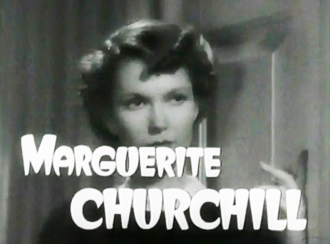 Screenshot of Marguerite Churchill from the film Dracula's Daughter.